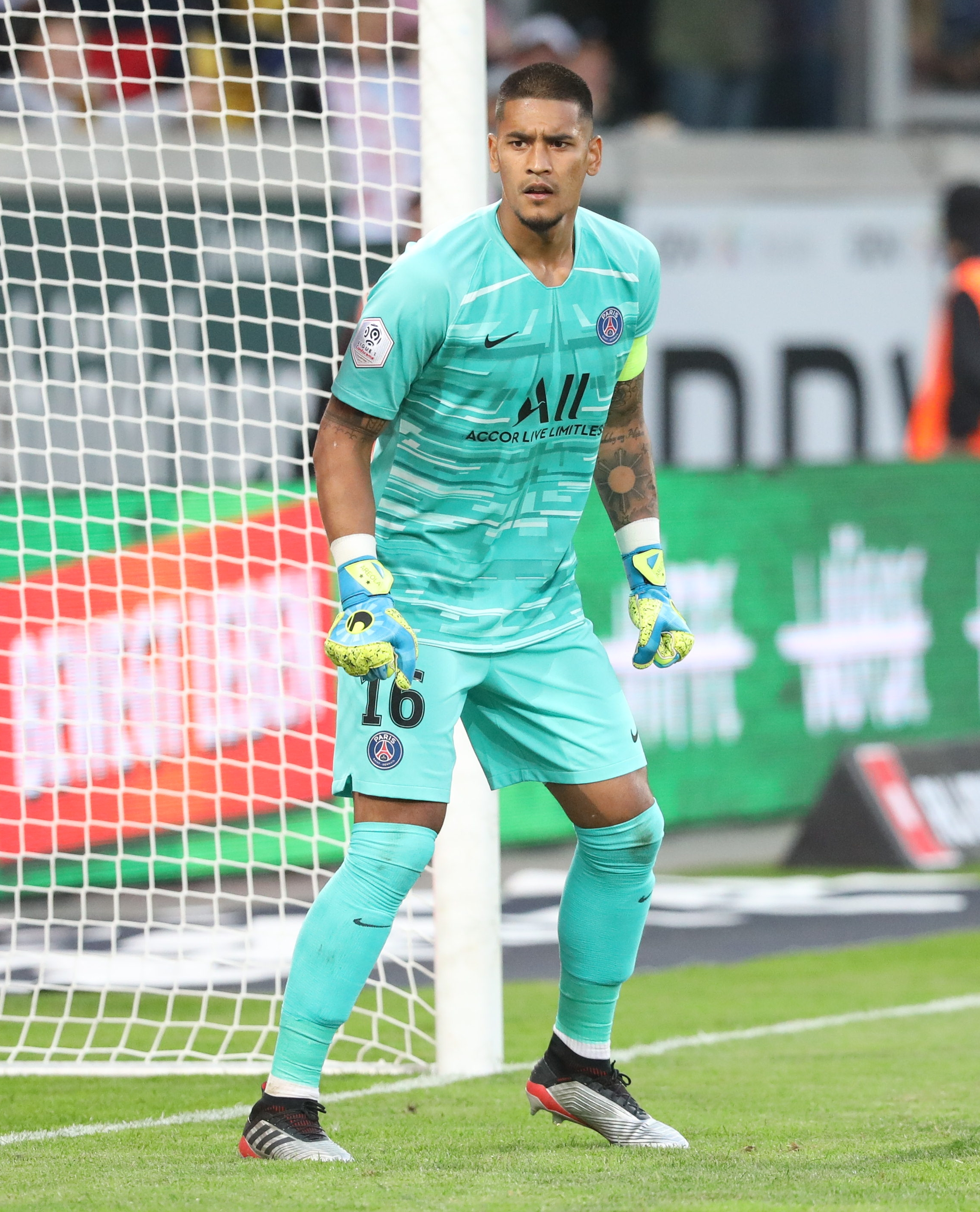 Test game, 17th July 2019: SG Dynamo Dresden vs. Paris Saint-Germain 1:6 (0:3)